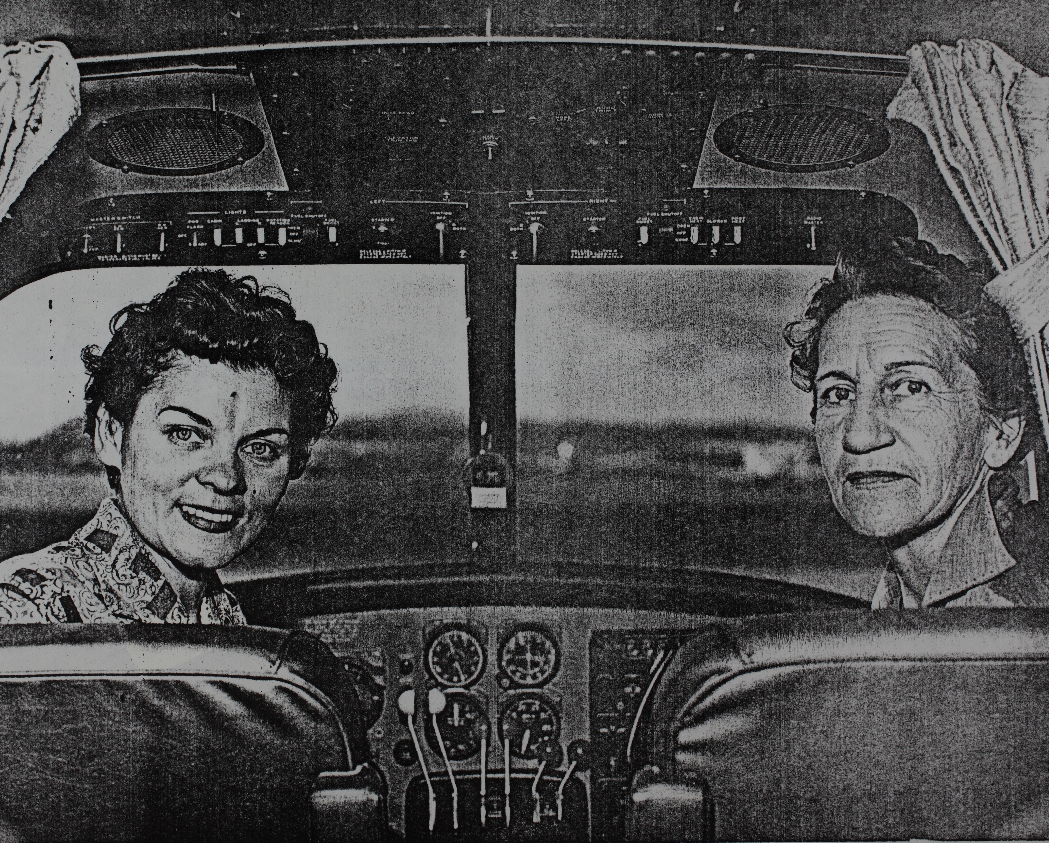 Title: Fran Bera Catalog #: WOF_00270 Item Location: Women of Flight Box 5 Collection: Women of Flight Special Collection Tags: Women of Flight Photo, Fran Bera Repository: San Diego Air and Space Museum Archive